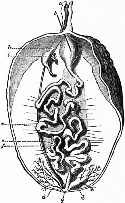 Female Bonellia viridis, Rol. Opened along the left side. a, Proboscis cut short. b, Bristle passing through the mouth into the pharynx. c, Coiled intestine. d, Anal tufts or vesicles. e, Ventral nerve cord. f, Ovary borne on ventral vessel running parallel with e. g, Position of anus. h, Position of external opening of nephridium. i, Nephridium—the line points towards, but does not reach, the internal opening.